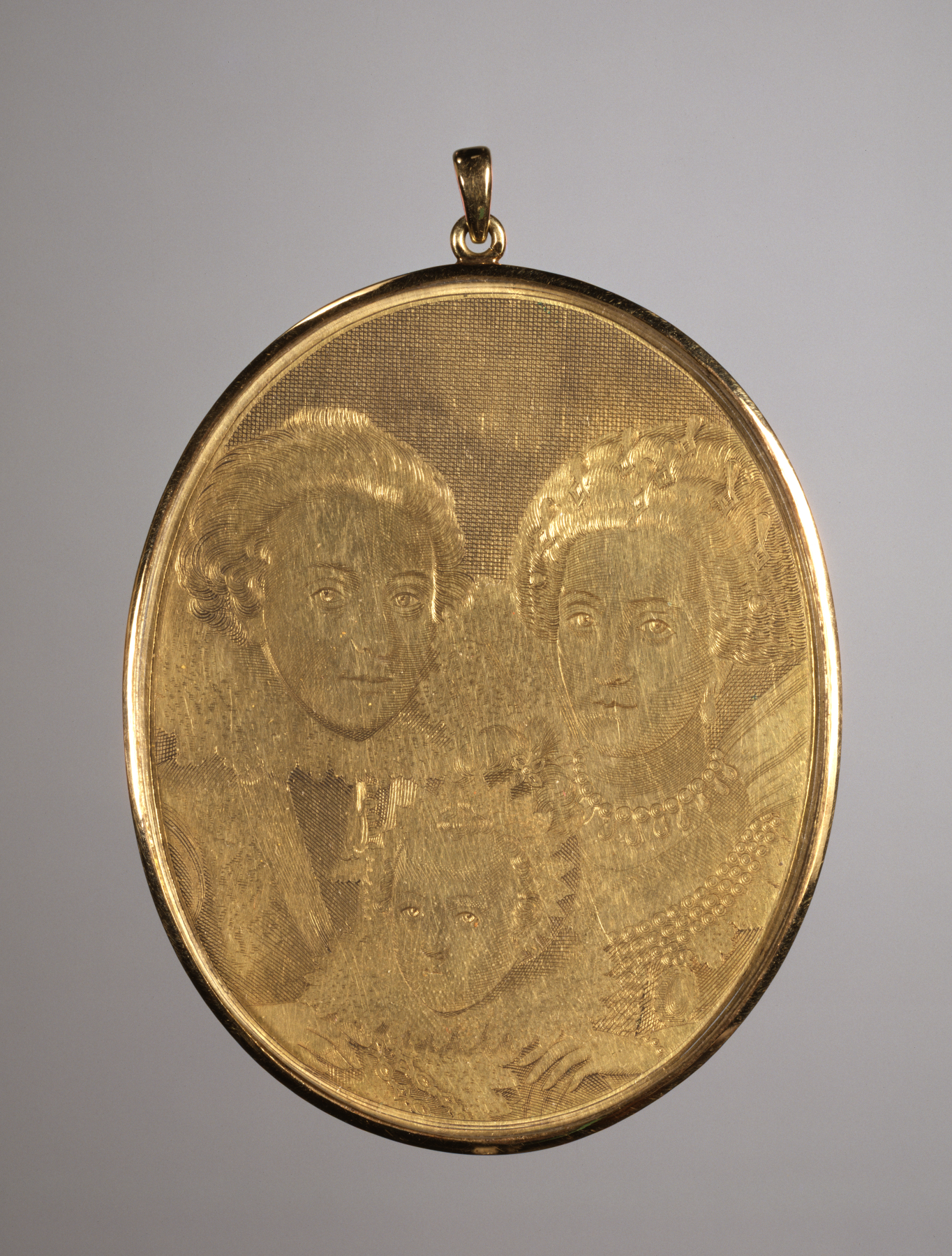 This exquisite gold medallion is from a series depicting members of the family of King James I of England. His daughter Elizabeth and her husband Frederick V of the Rhine Palatinate, one of the princely electors of the Holy Roman Empire, had their court in Heidelberg, Germany. The couple had married in 1613, and their son Frederick Hendrick was born in 1614. He is a toddler here, so De Passe likely made the medallion around 1616, when he was working in London. De Passe was a well-known engraver, and he probably used portrait miniatures in opaque watercolor as his models. The medallion is designed as a pendant (such as Elizabeth herself wears).